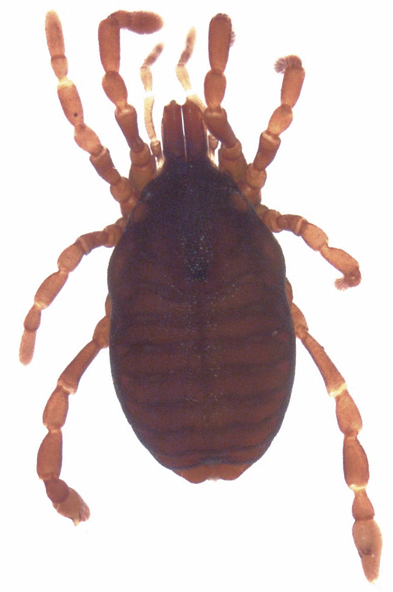 adult pettalid